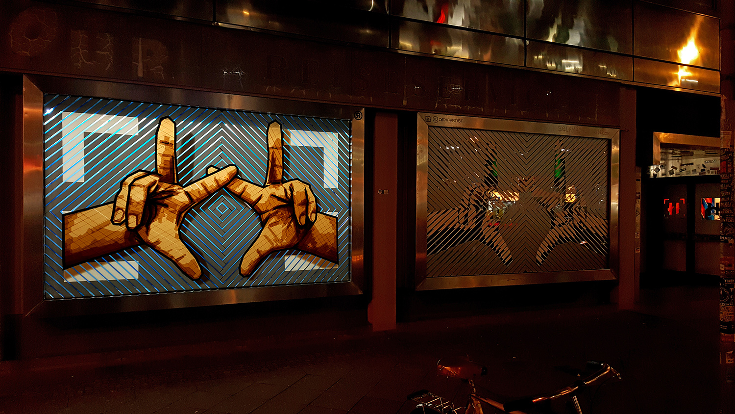 "The Hände"- Tape art and Street art piece out of packing and duct tapet created by Berlin-based tape artist Slava Ostap for "The Haus-Berlin Art Bang" Exhibition. Brown packing tape and silver duct tape on the window. Berlin 2017.